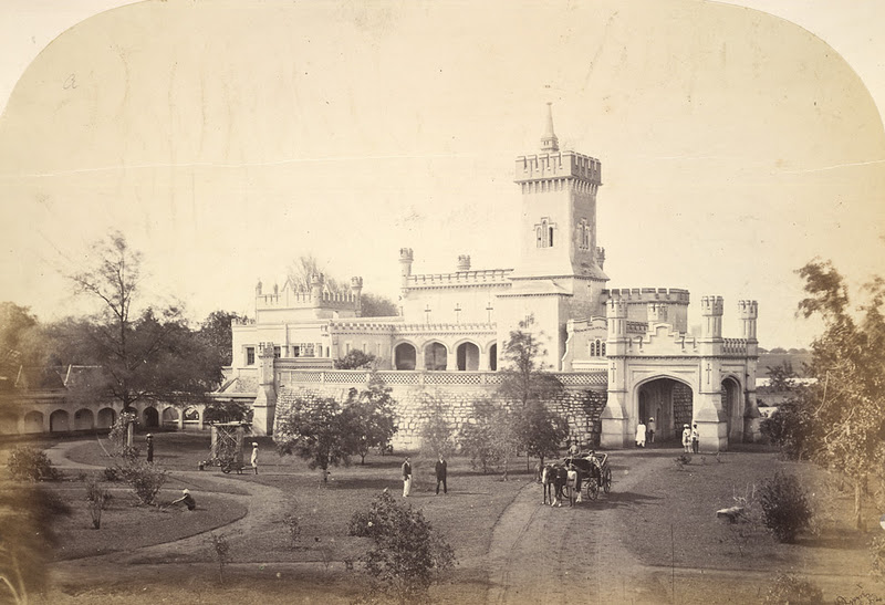 Mr. Brett's house at Hosur, Tamil Nadu from the Archaeological Survey of India Collections: India Office Series (volume 21, 'a' numbers) taken by Henry Dixon in the early 1860s